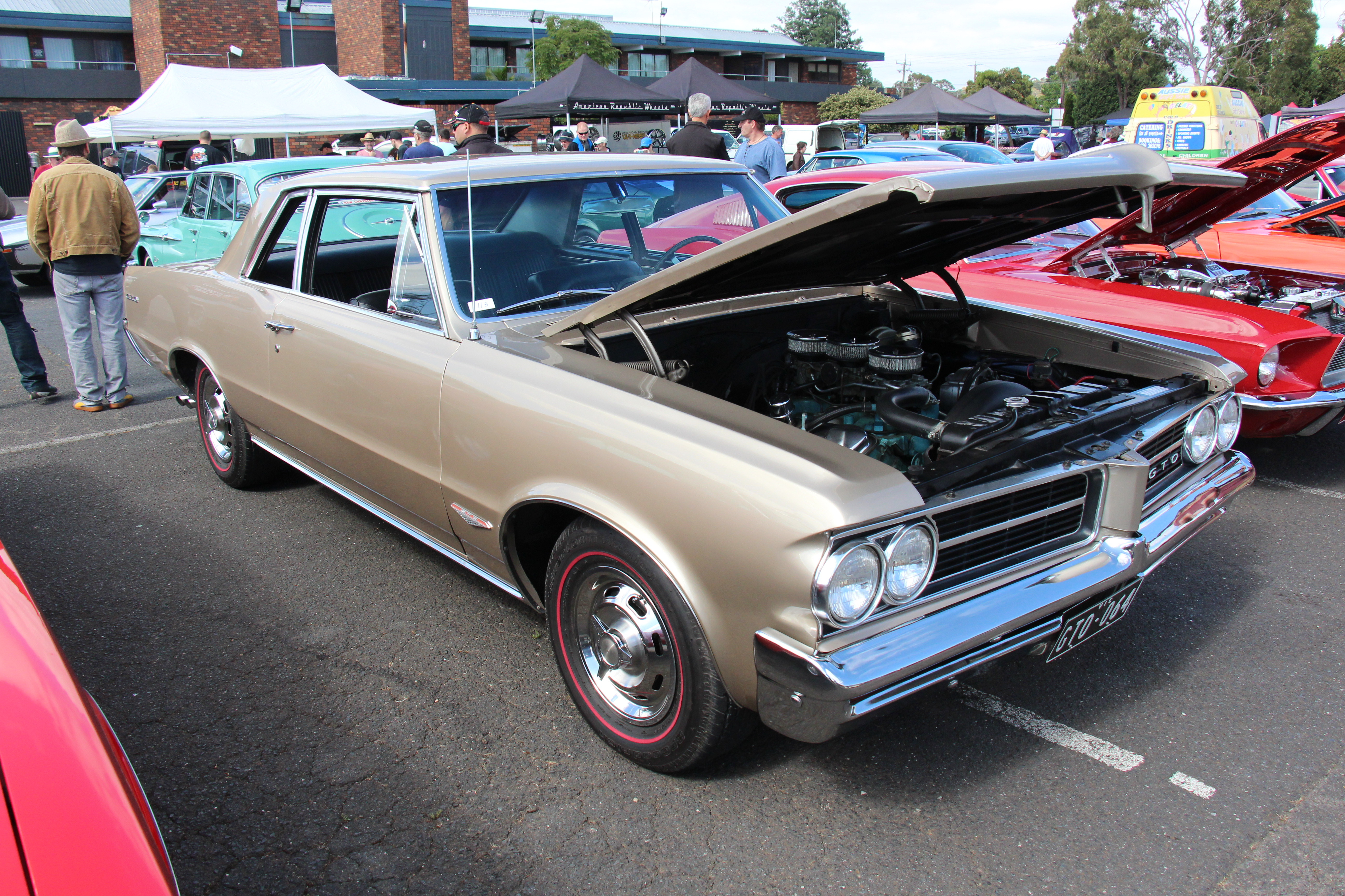 Pontiac wanted a performance package for its Tempest using the larger 325hp 389 cu in V8, so the GTO option was introduced in 1964, it was available on the 2 door coupe, hardtop coupe and convertible. It also got dual exhaust, chrome valve covers and air cleaner, floorshift with Hurst shifter, stiffer springs and a hood scoop. 348hp Tri Power was an option